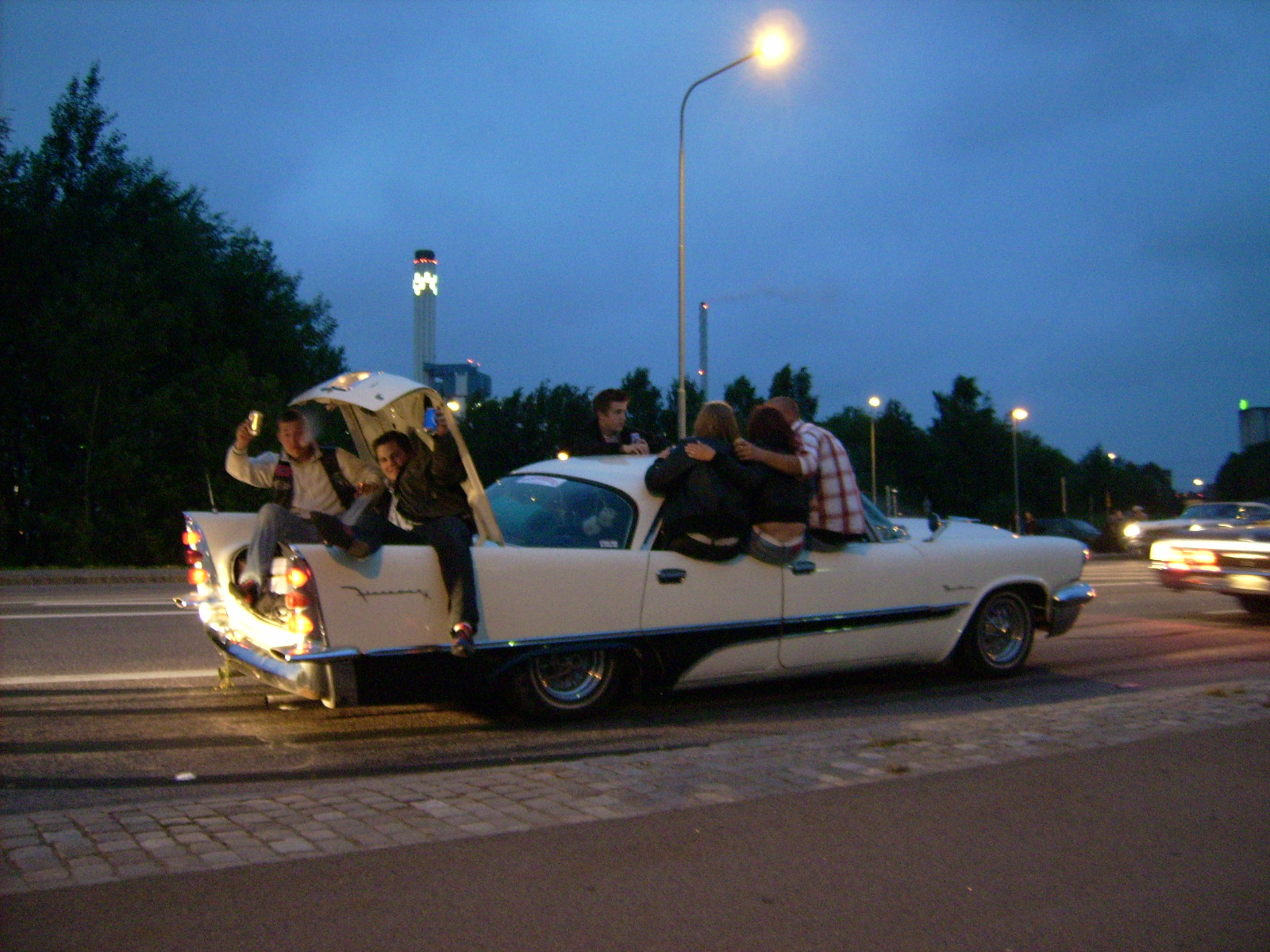 1957 De Soto Firesweep at Power Big Meet 30th Anniversary Cruising (2007)